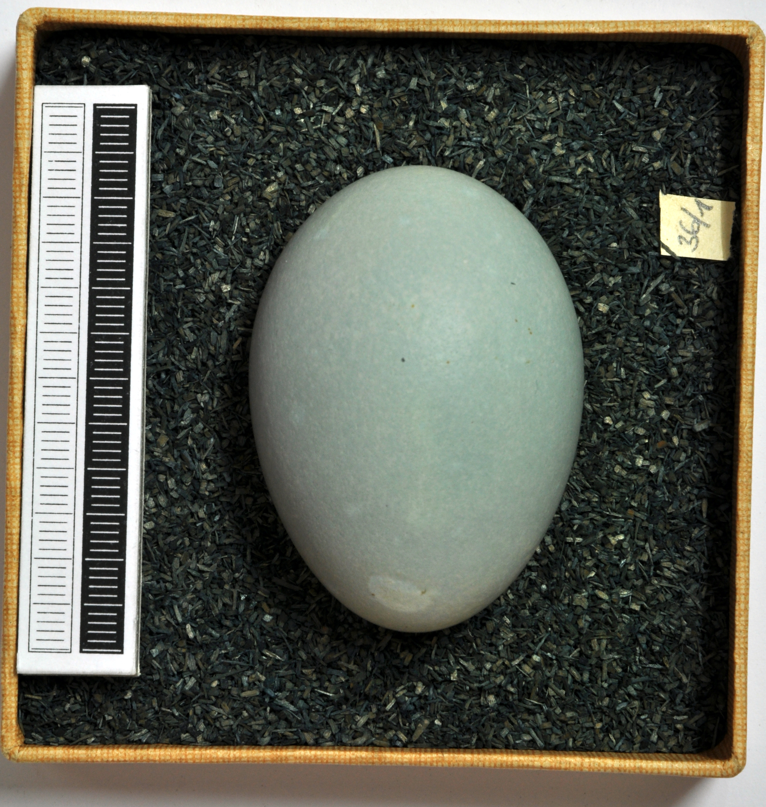 Glossy ibis Plegadis falcinellus, egg, Coll. Museum Wiesbaden, Origin: Danube Delta, Romania, 1972, leg. W. Abelmann